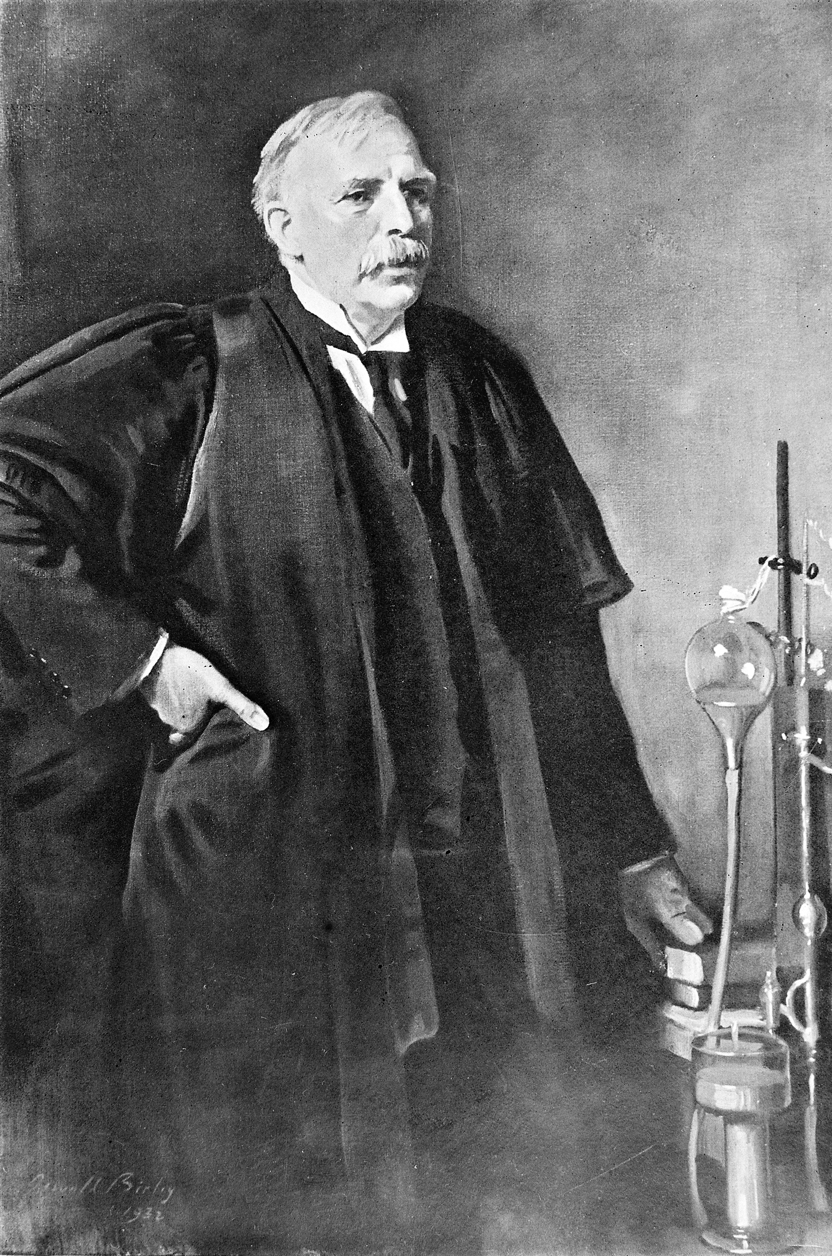 Portrait of Ernest Rutherford from the portrait by Oswald Birley in the Royal Society General Collections Keywords: Oswald Birley; Ernest Rutherford